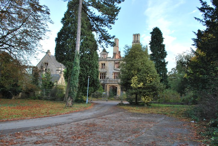 North Aspect of Nocton Hall showing Annex to the left, this survived the 2004 fire undamaged.